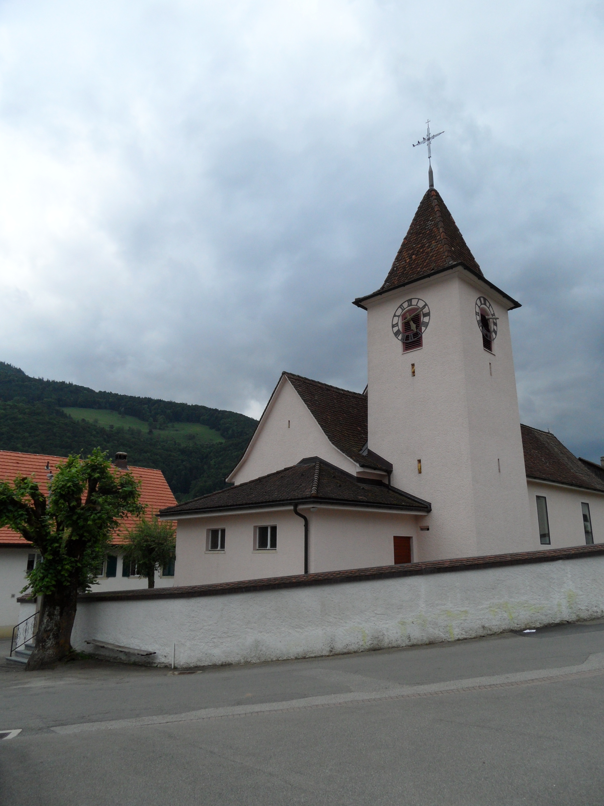 Church of Rebeuvelier, Canton of Jura, Switzerland.